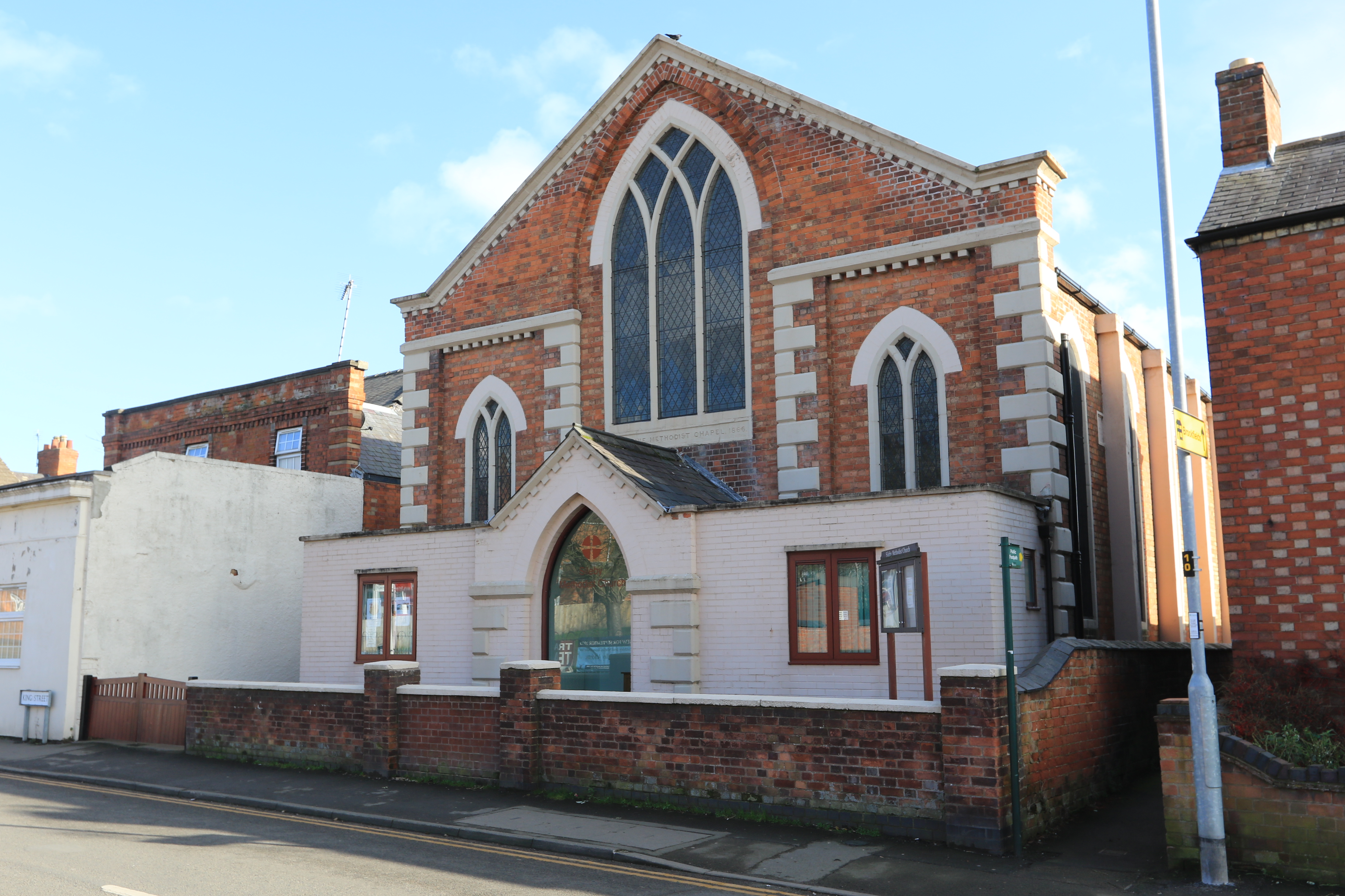 Built in 1866 to the designs of John Kerridge of Wisbech.